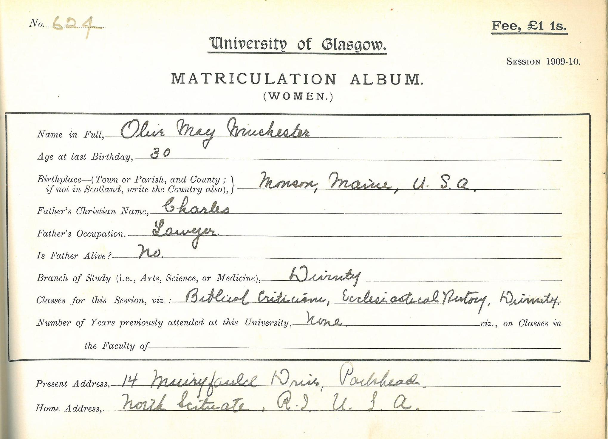 Olive Winchester's first matriculation slip 1909 University for Glasgow University (R8/5/30/11).